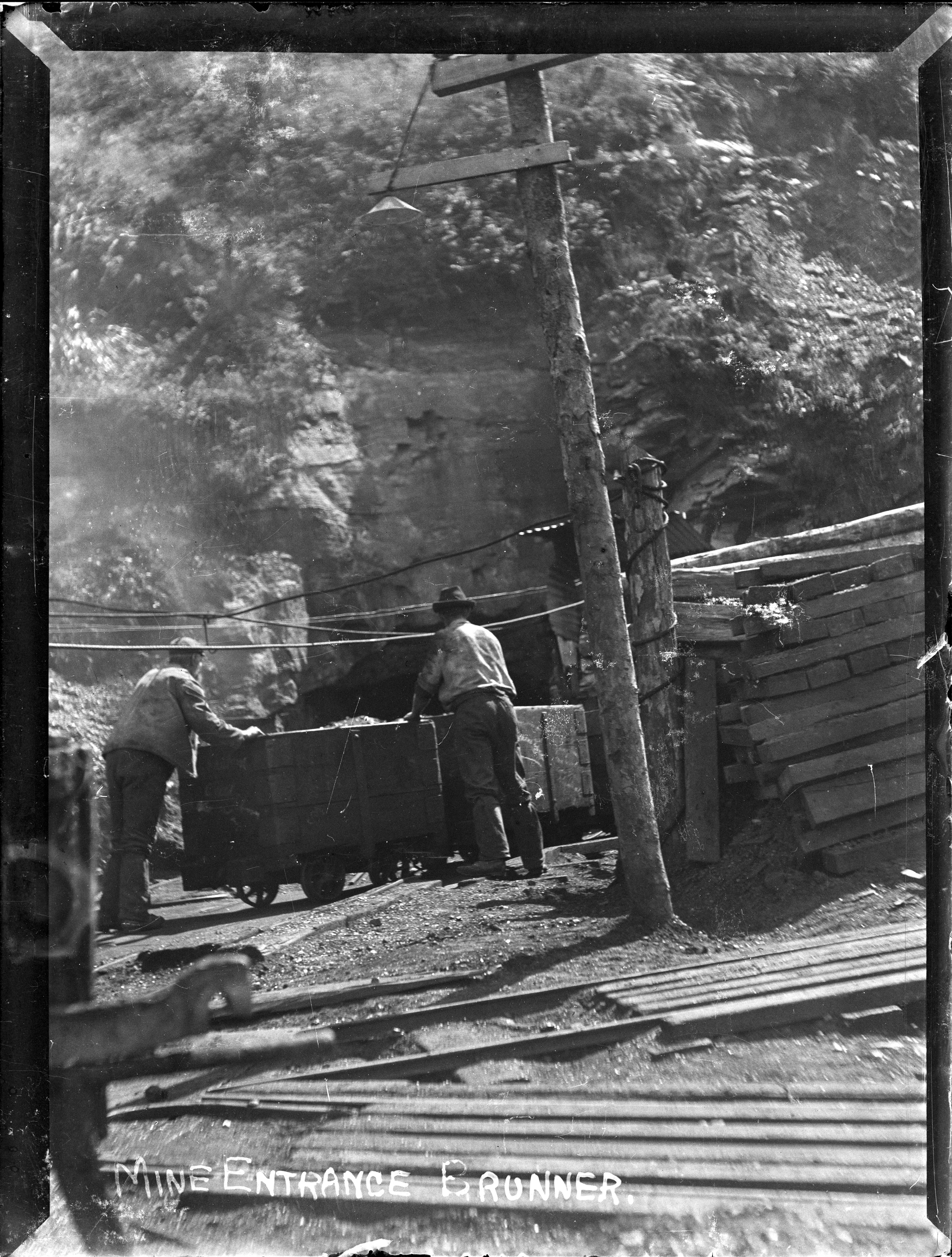 View of the mine entrance at the Brunner Mine, circa 1900s. Photograph probably taken by Albert Percy Godber. The inscription on this negative is unusual for Godber. There are several other images taken at the same time of Brunner and the mine, all of which have inscriptions in the same hand. See APG-1518-1/4-G, 1/4-039058, 1/4-039115.